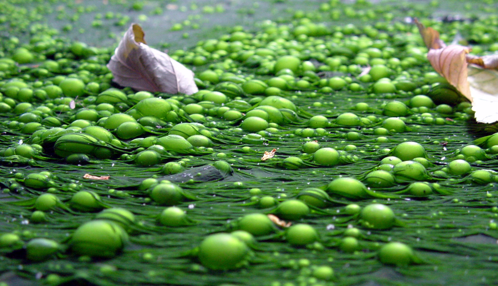 Eutrophication is caused by the enrichment of an ecosystem with chemical nutrients, typically compounds containing nitrogen or phosphorus, here in a pond, with many dead leaves., under tree, in Lille (North of France). This sort of eutrophication is not abnormal if just for some days or weeks.